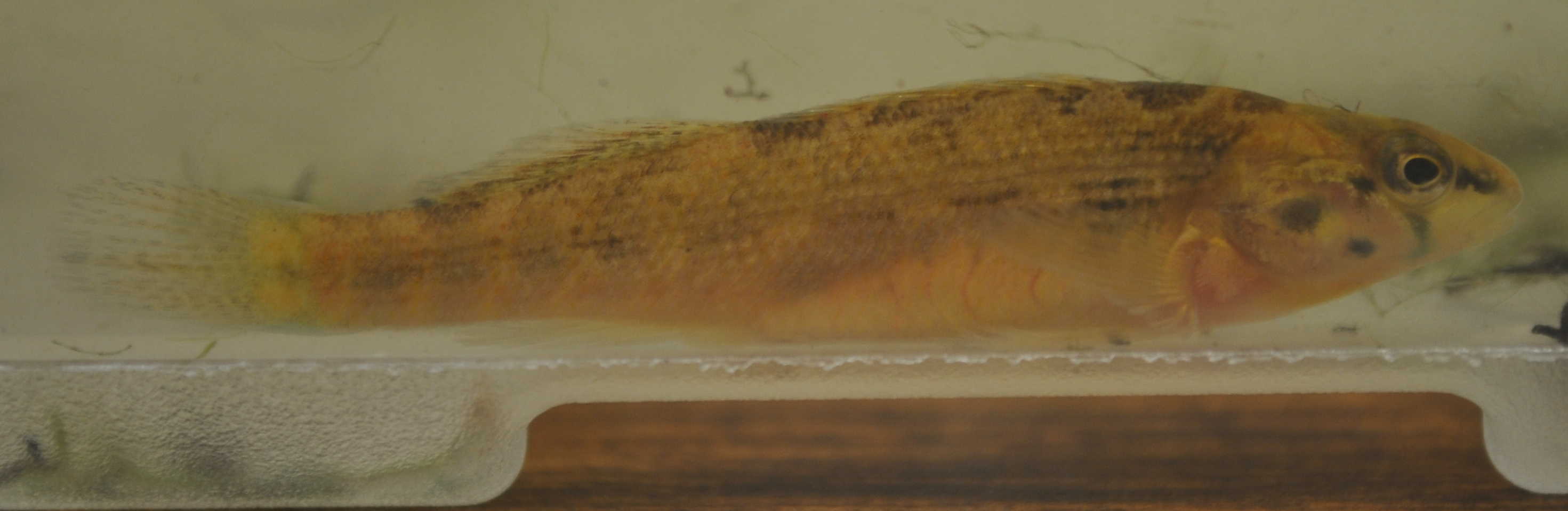 A female orangethroat darter (Etheostoma spectabile) from the Meramec River watershed, Missouri.